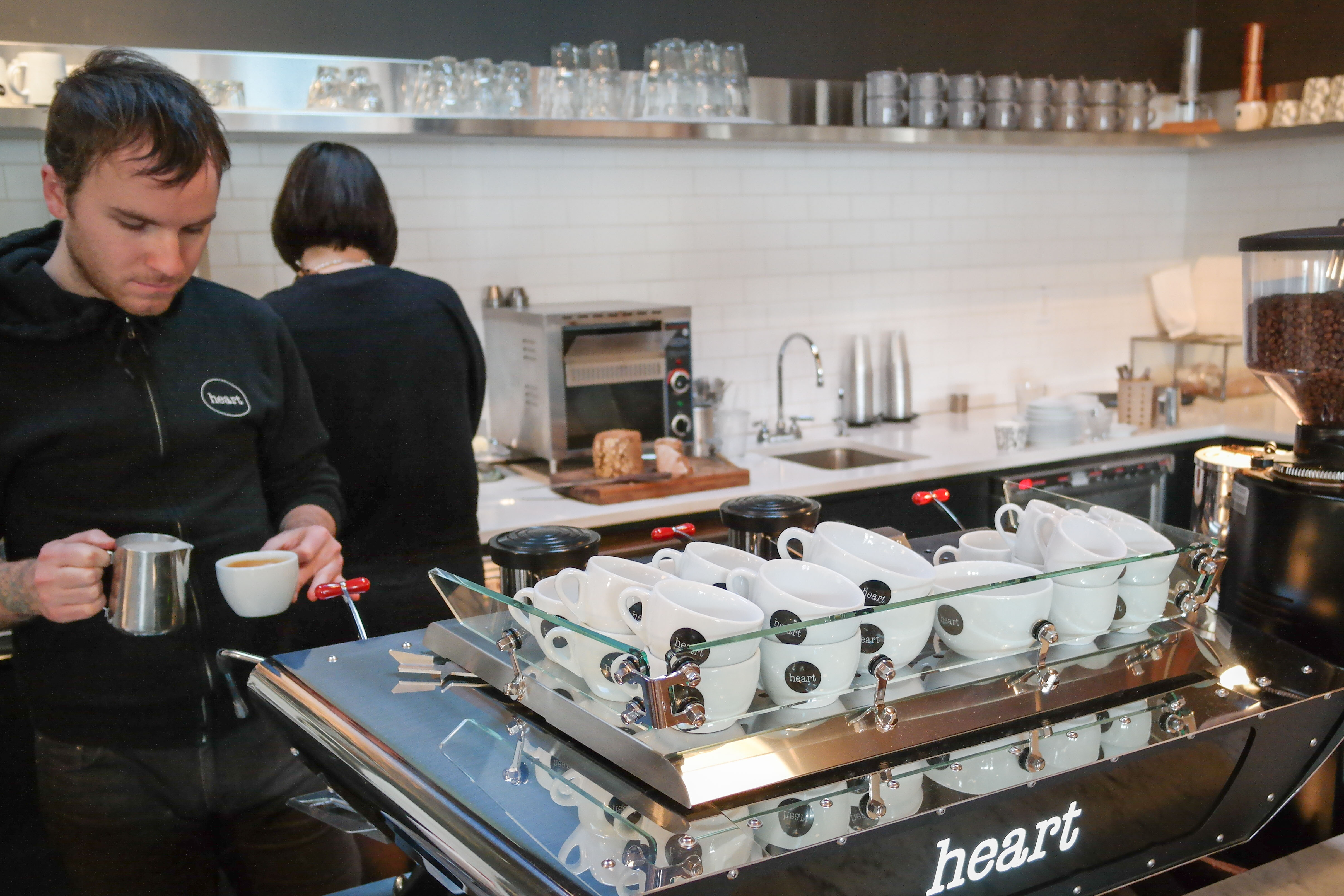 A barista prepares a cappuccino at Heart Roasters in Portland, Oregon